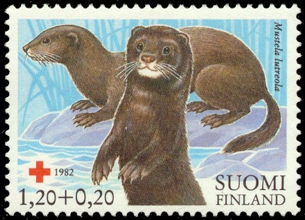 Postage stamp depicting Mustela lutreola (European Mink), now considered extinct in Finland (last observation in 1992)